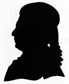 Samuel Ahlgren, Swedish actor. Picture published in Volume 1 (of 8) of Nils Personne’s history of Swedish theatre.